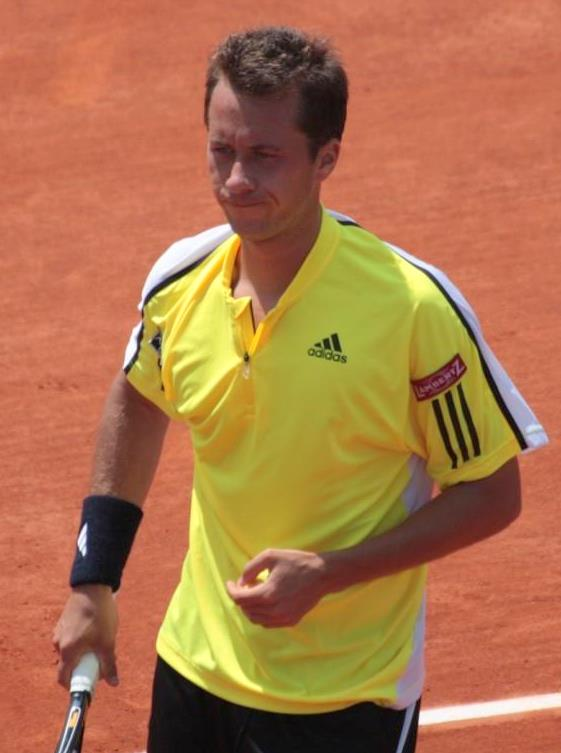 Philipp Kohlschreiber at 2009 Roland Garros, Paris, France